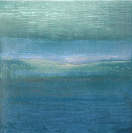 abstract landscape 2